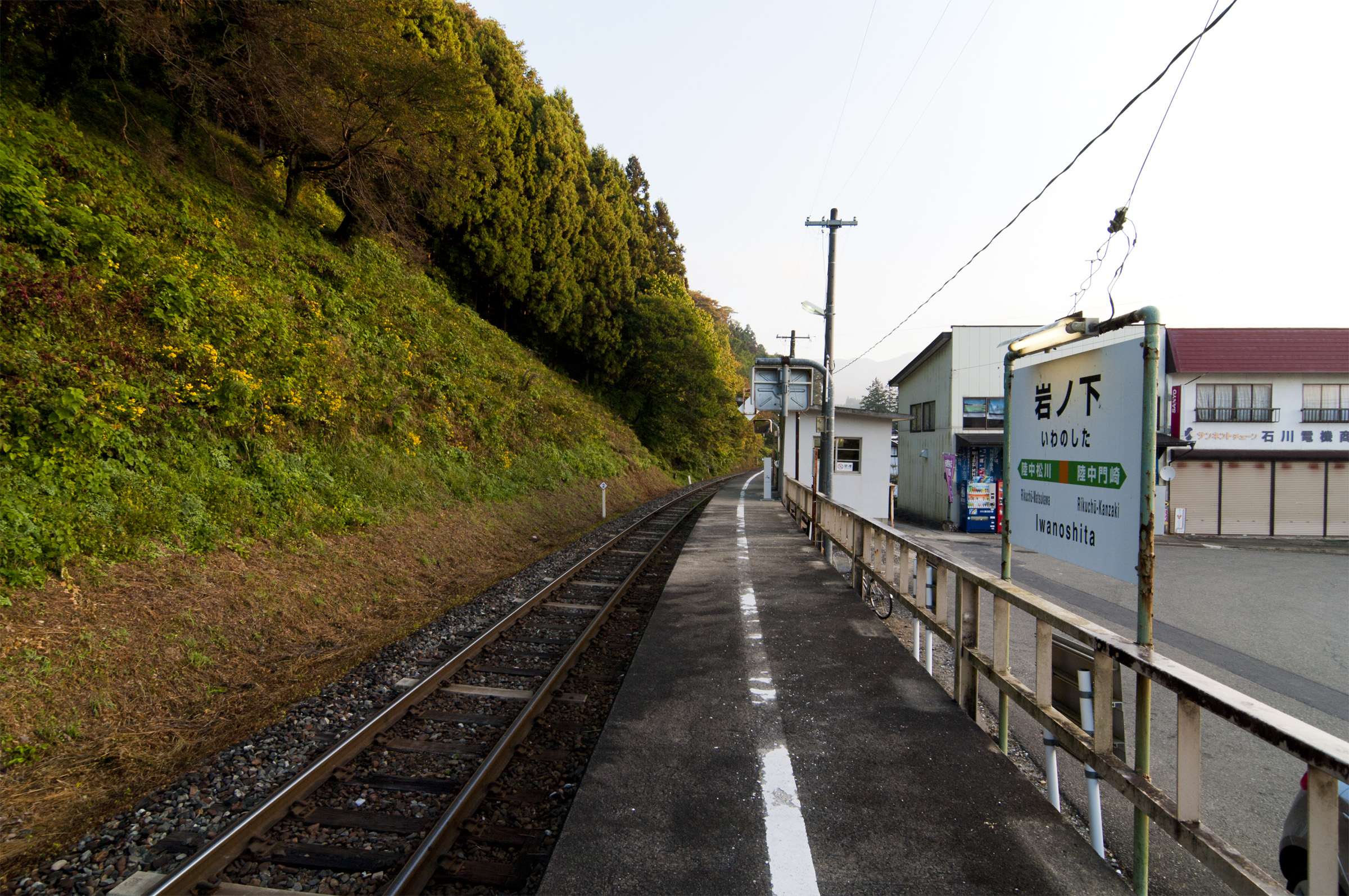 JR East Ofunato Line Iwanoshita Station platform